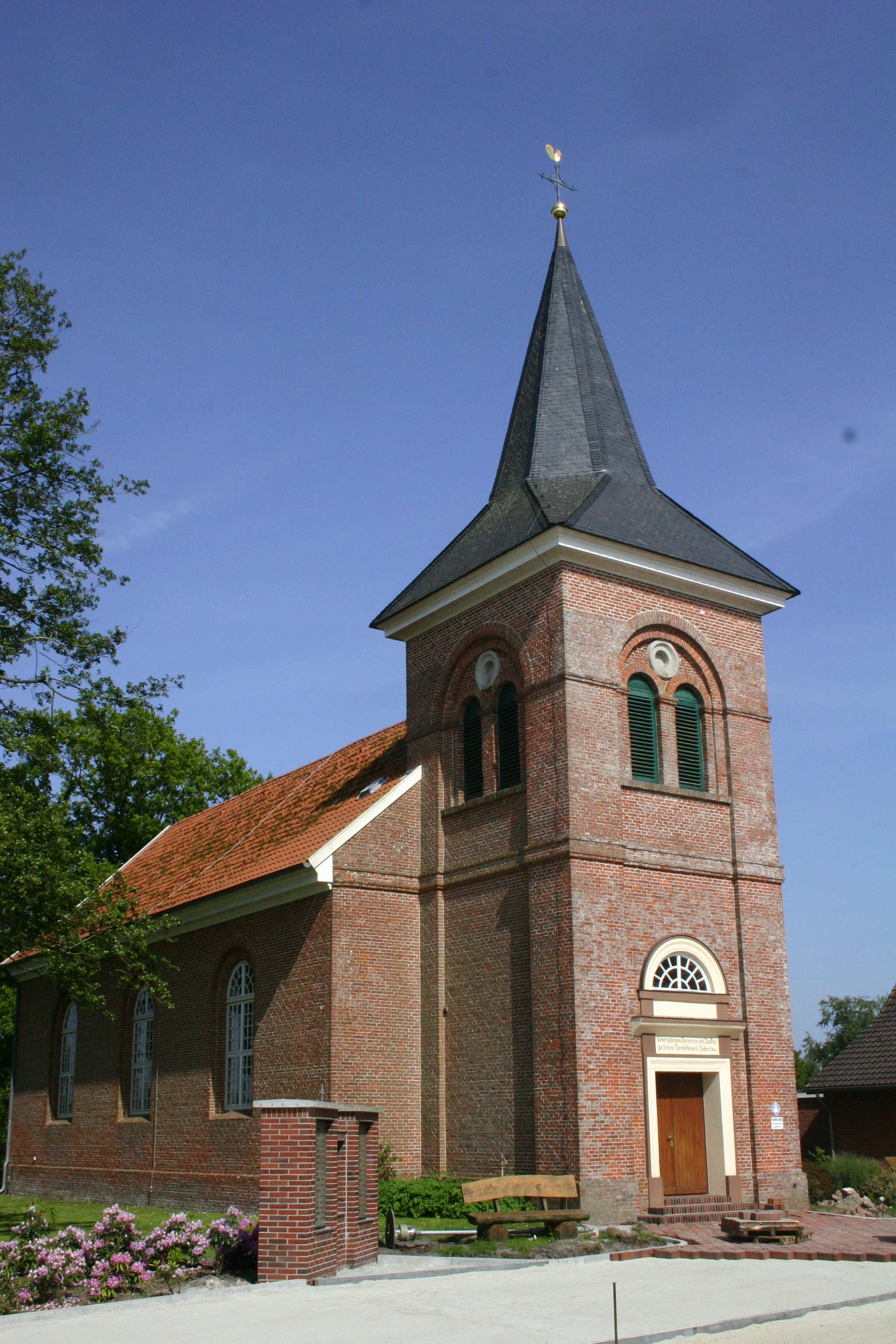 Historic church in Forlitz-Blaukirchen, district of Aurich, East Frisia, Germany